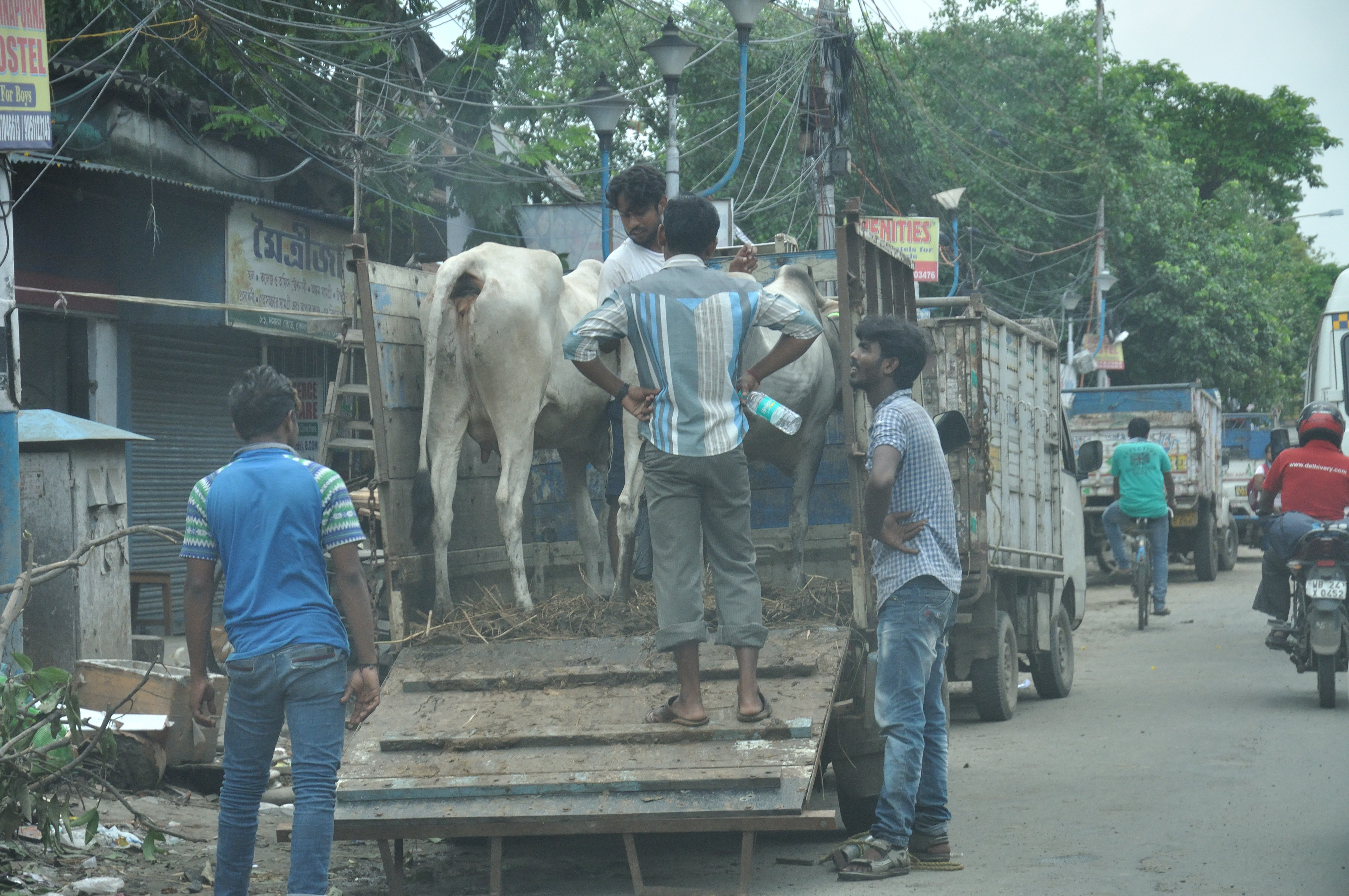 Photographed in Kolkata.